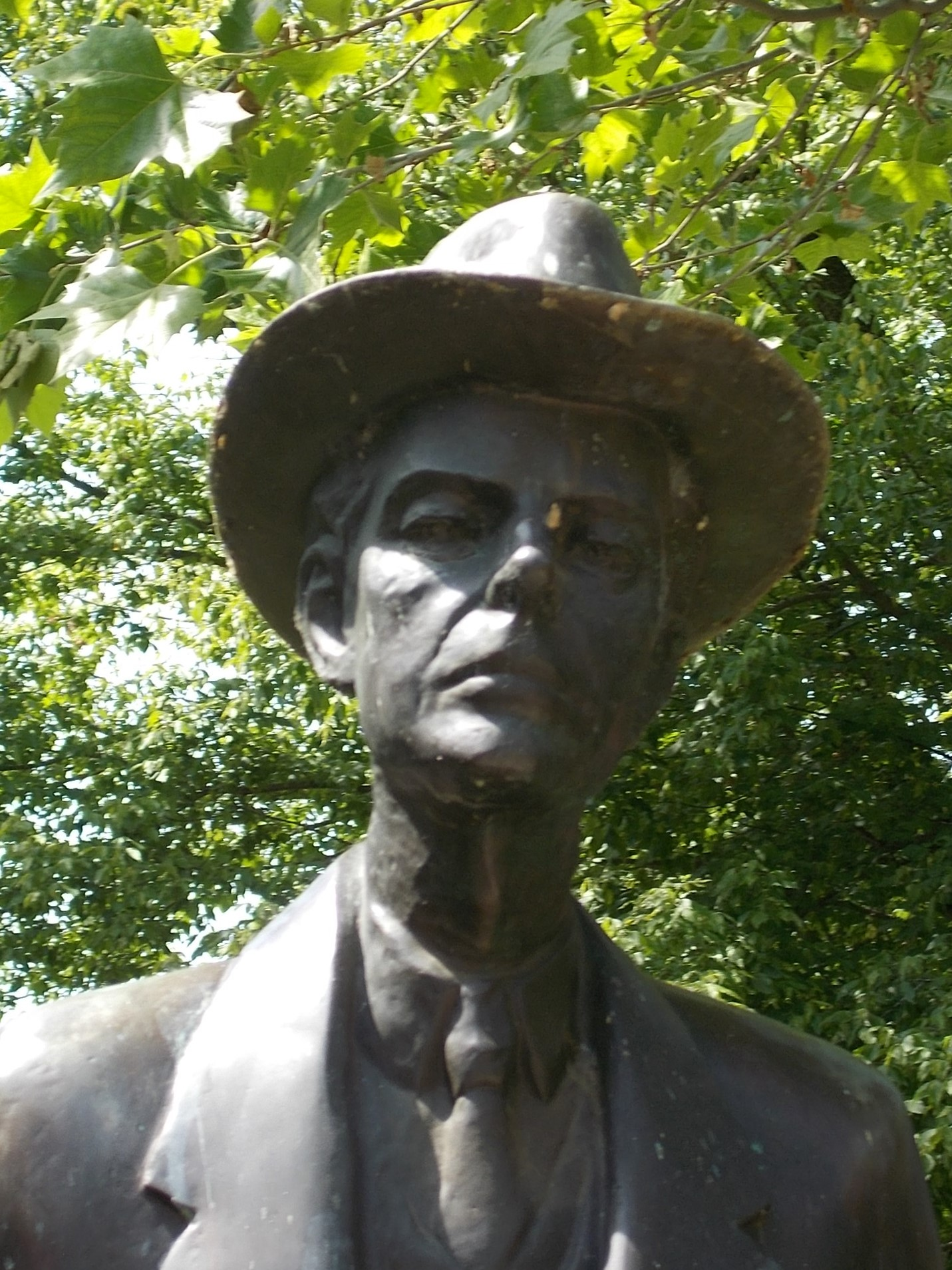 Béla Bartók by Imre Varga (2014, bronse standing man with pocketed hands). - Mártírok útja, Üdülőterület neighborhood, Siófok, Somogy County, Hungary.